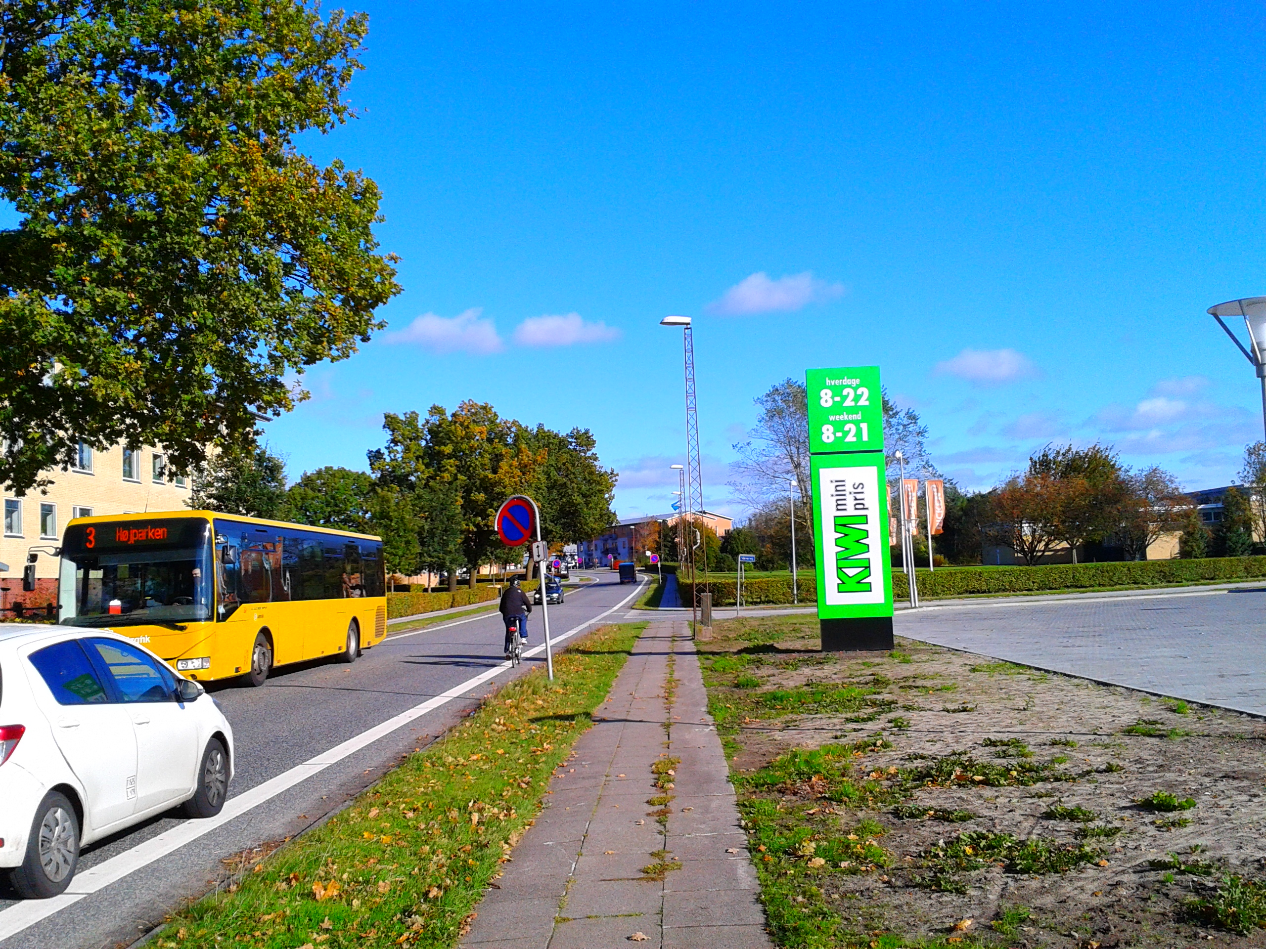 Vestervang Street In Vestervang